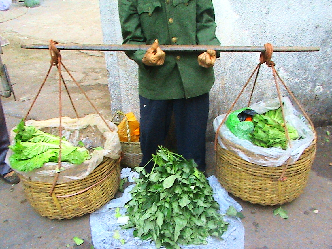 A shoulder pole in Haikou, Hainan Province, China. The yoke is made of wood. The baskets are not full. The lid to the baskets has been inverted with the goods placed on top.